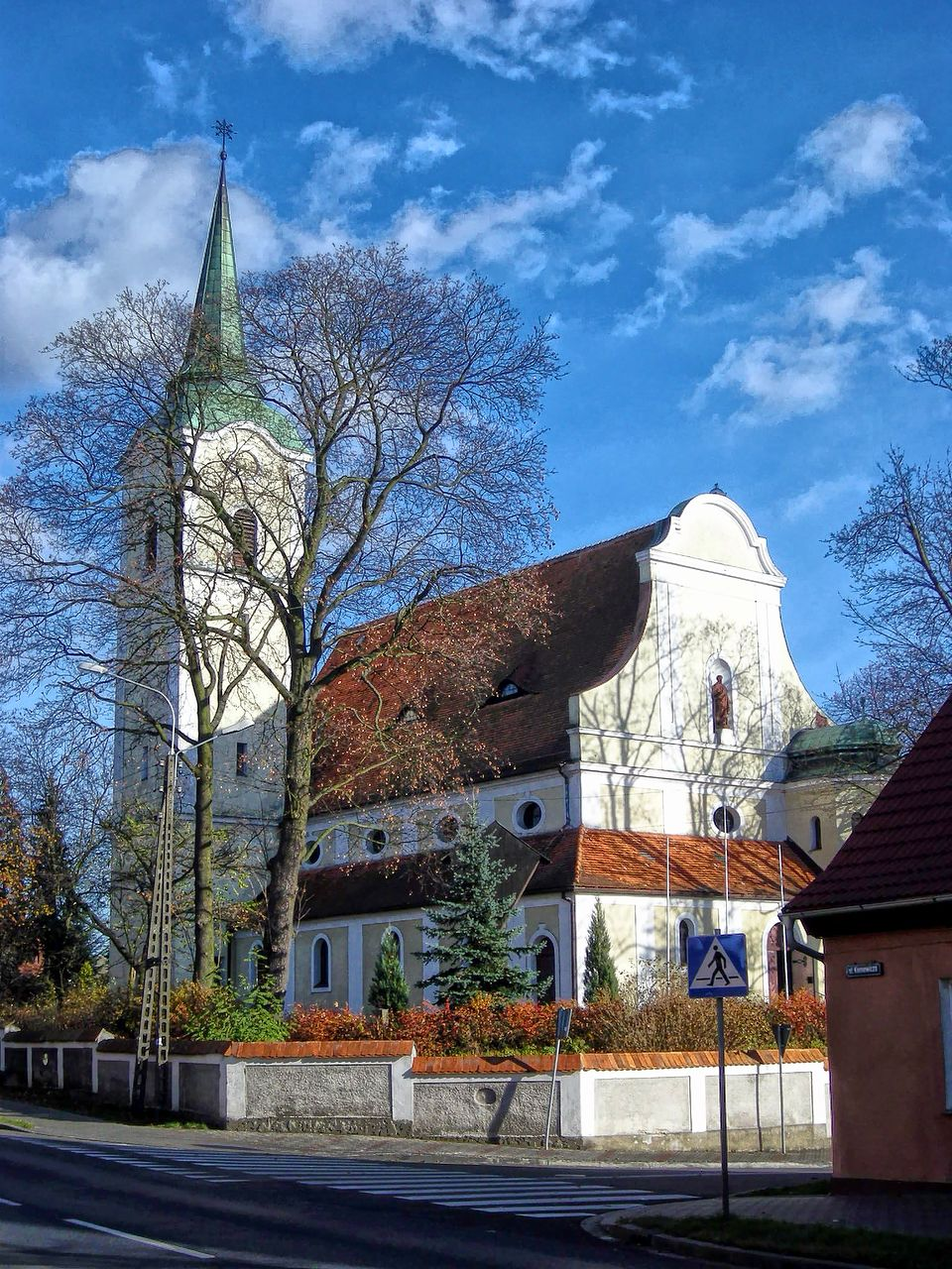 The church in Jastrowie, Poland.